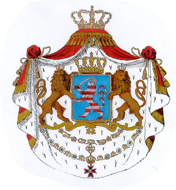 Arms of the Grandduchie of Hessen-Darmstadt 1844. Drawn by Theo van der Zalm